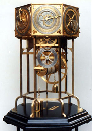 Astrarium